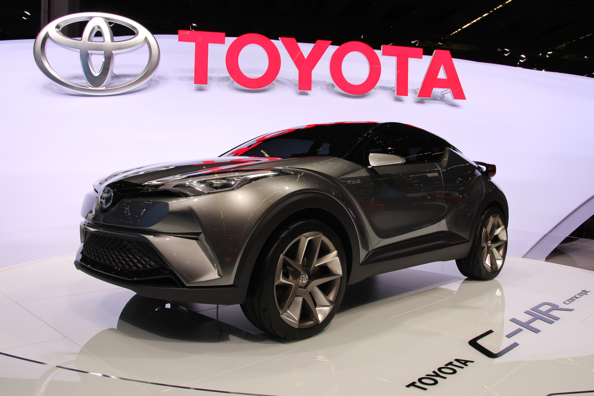 Toyota C-HR at Internationale Automobil-Ausstellung 2015, Frankfurt, Germany